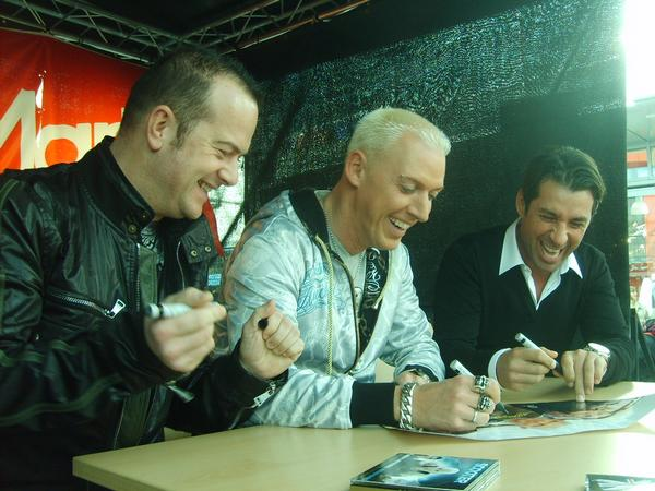 Scooter band, autumn 2008, after releasing of "Jumping All Over the World (Whatever You Want)" album - autograph session. Rick J Jordan, HP Baxxter, Michael Simon.